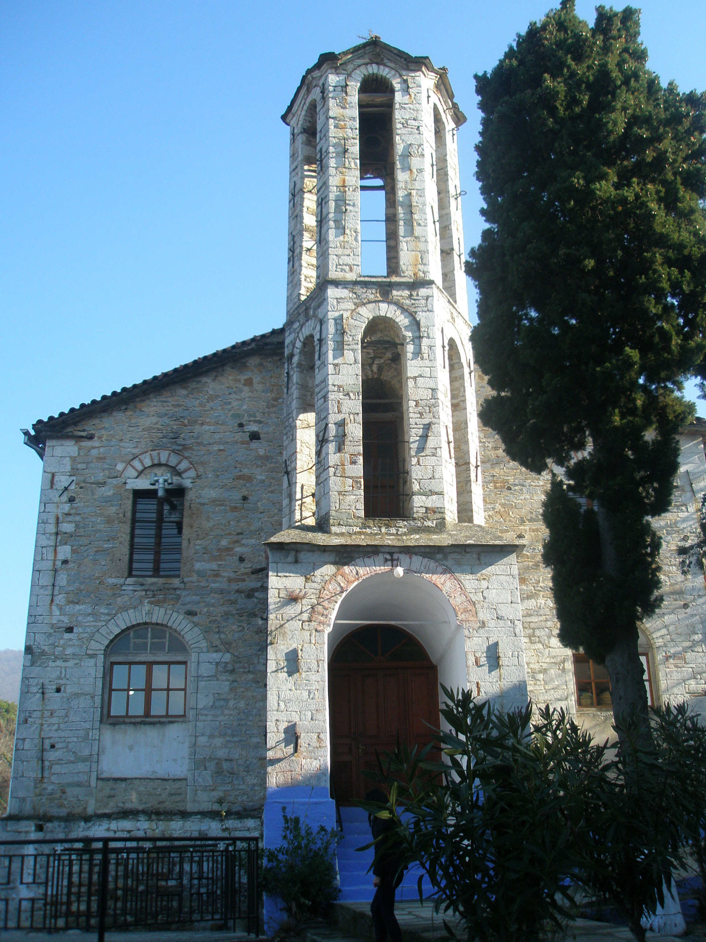 Church of St. Athanasius, Ampelakia, Greece